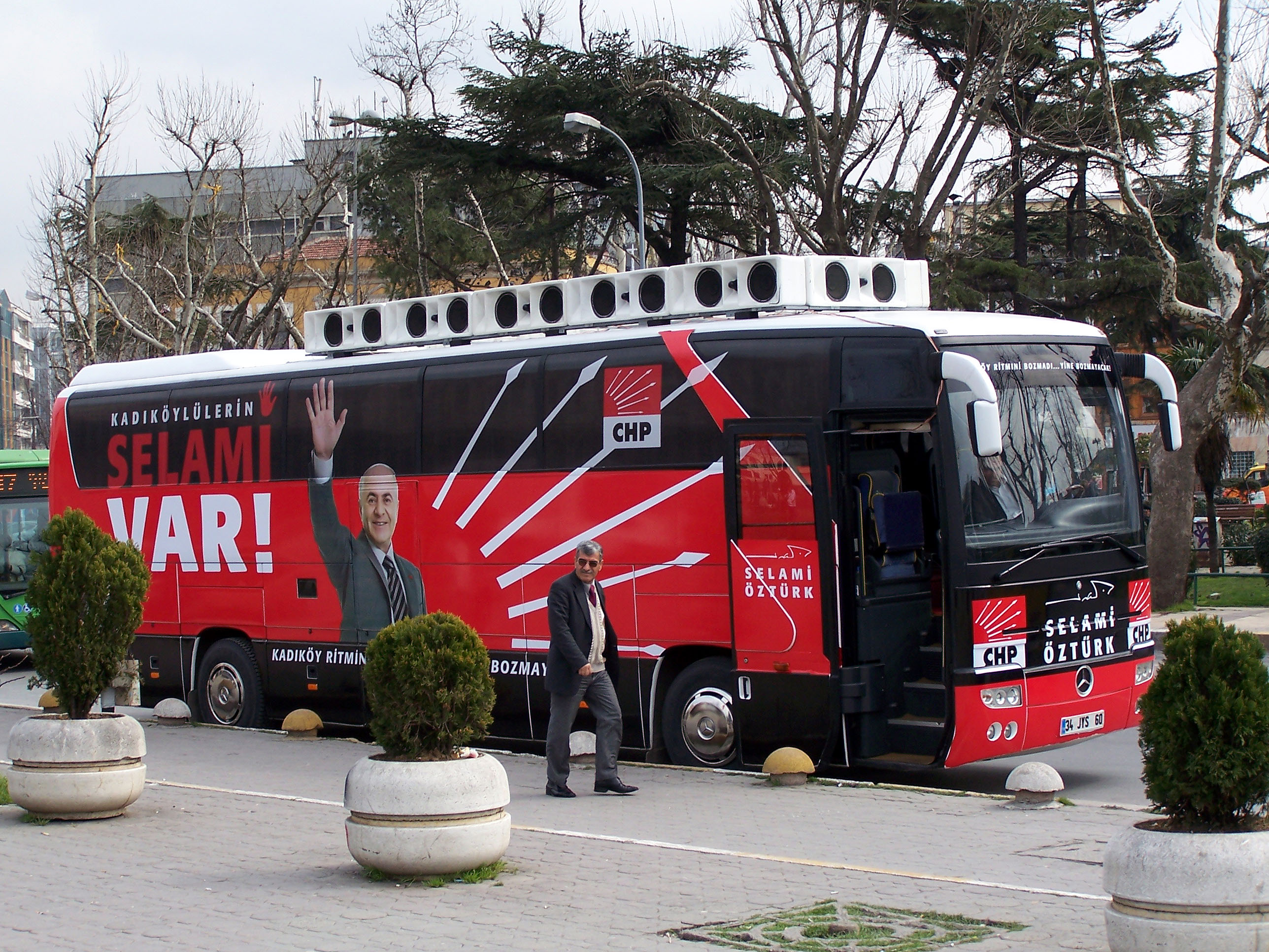 CHP (Cumhuriyet Halk Partisi, Republican People's Party) election bus before the Turkish municipal elections in Kadıköy, İstanbul, Turkey